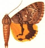 PLATE CCI.